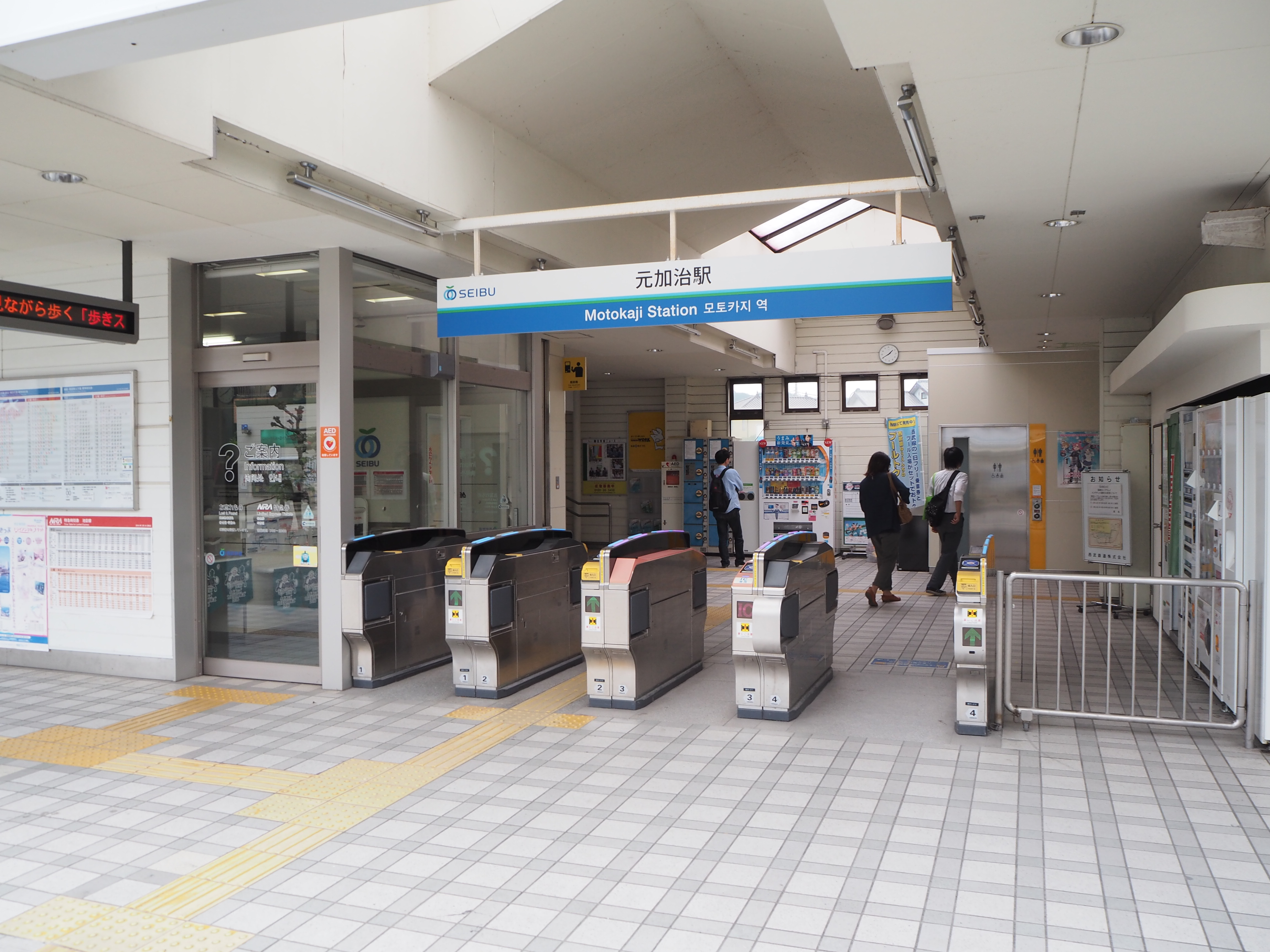 Ticket barriers of Motokaji Station